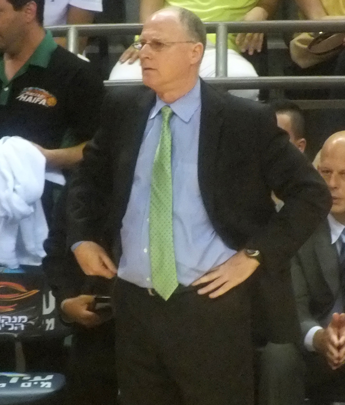 Coach for Maccabi Haifa B.C. during 2012/13 Season and HaPoel Jerusalem in 2013/14.